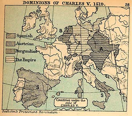 Map of the European dominions of Charles V in 1519.